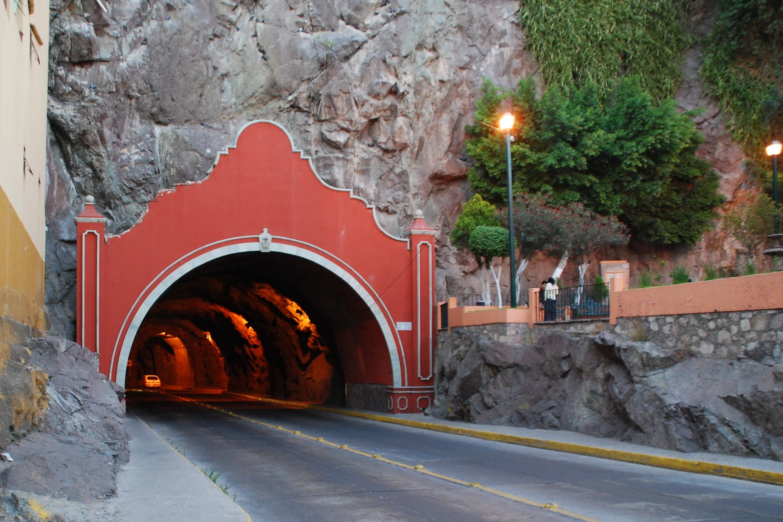 Entrance to a tunnel in Guanajuato, Mexico.